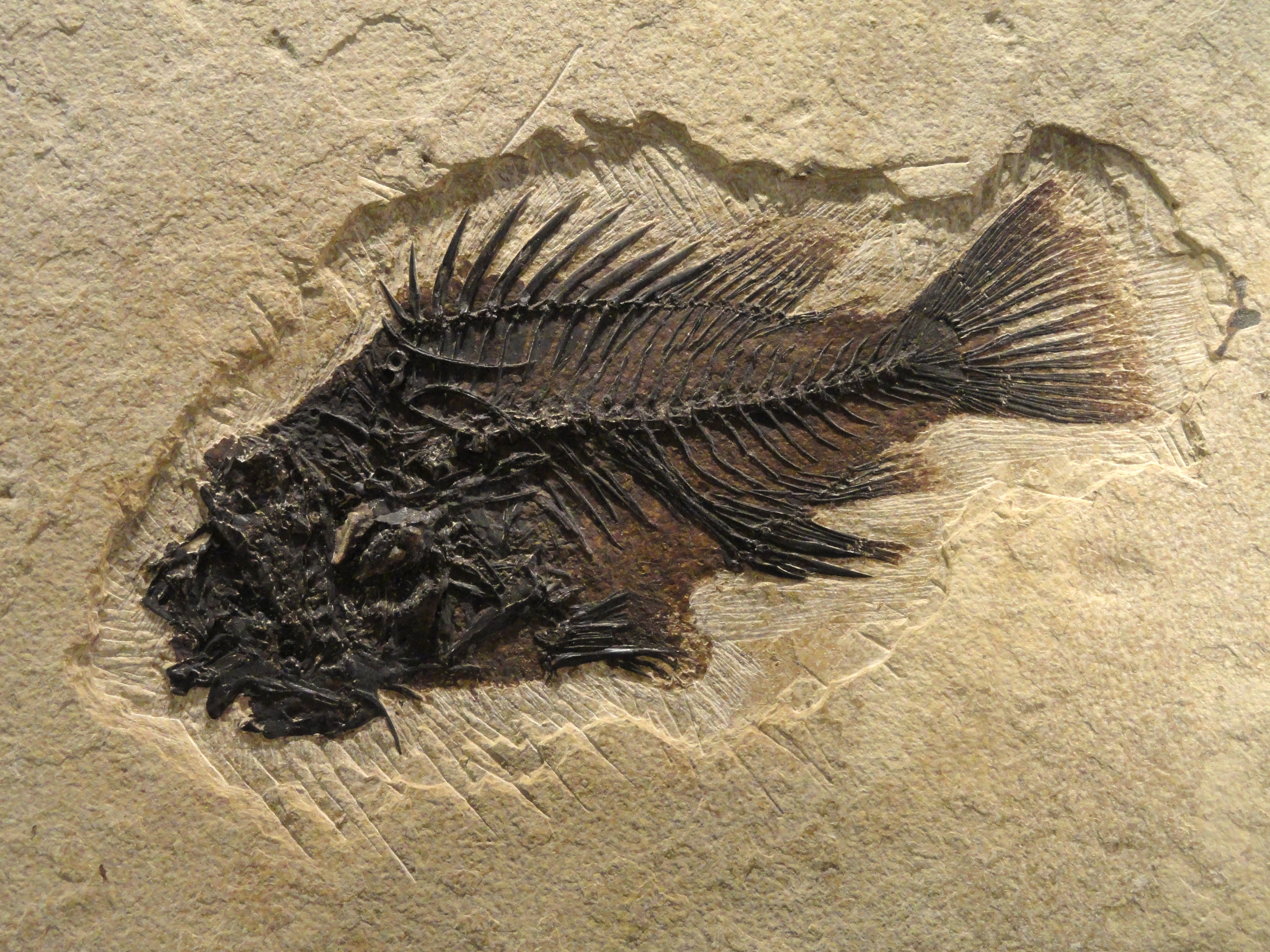 Fossil specimen (Priscacara serrata) in the Natural History Museum of Utah, Salt Lake City, Utah, USA.